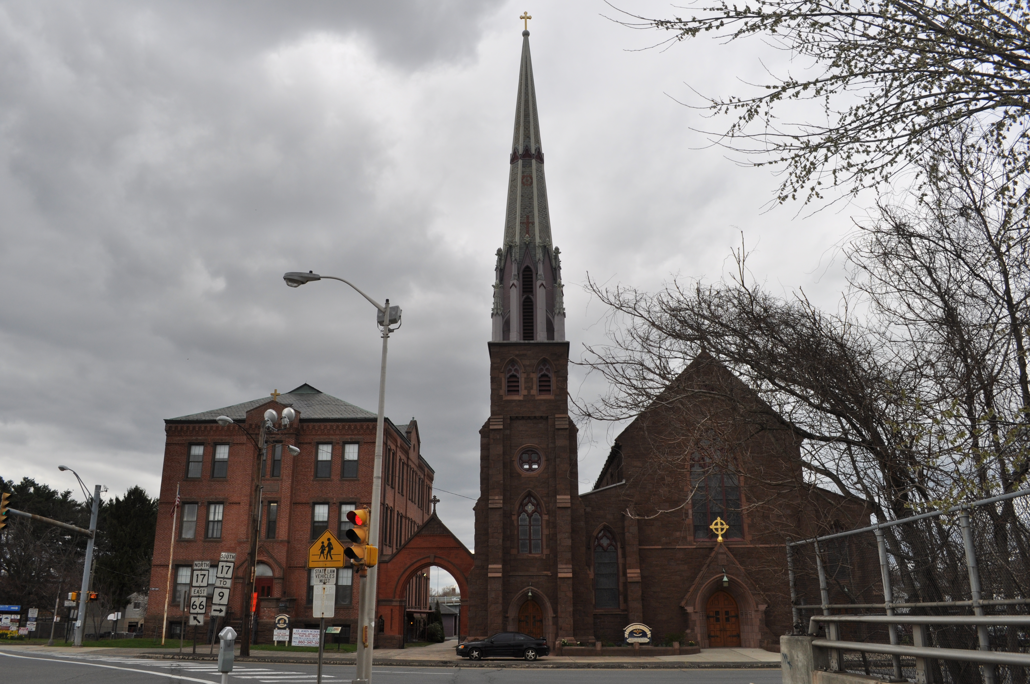 St. John's Roman Catholic Church, 9 St. John's Street, Middletown, Connecticut, USA (built 1852) and (at left) St. John's Parochial School, 5 St. John's Street (built 1887). Both are contributing properties of the Main Street Historic District, which is listed on the National Register of Historic Places.